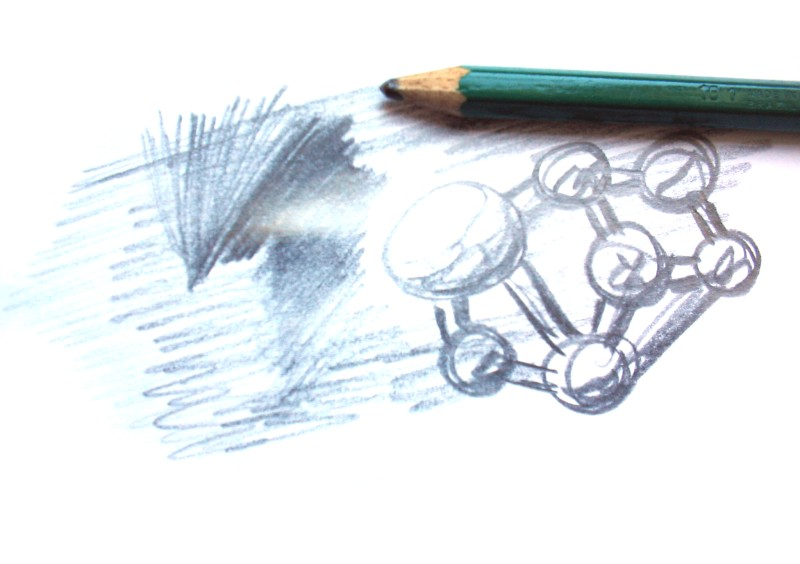 Pencil 6B and draw.